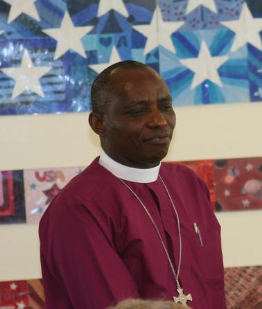 Picture of Bishop Augustin Ahimana